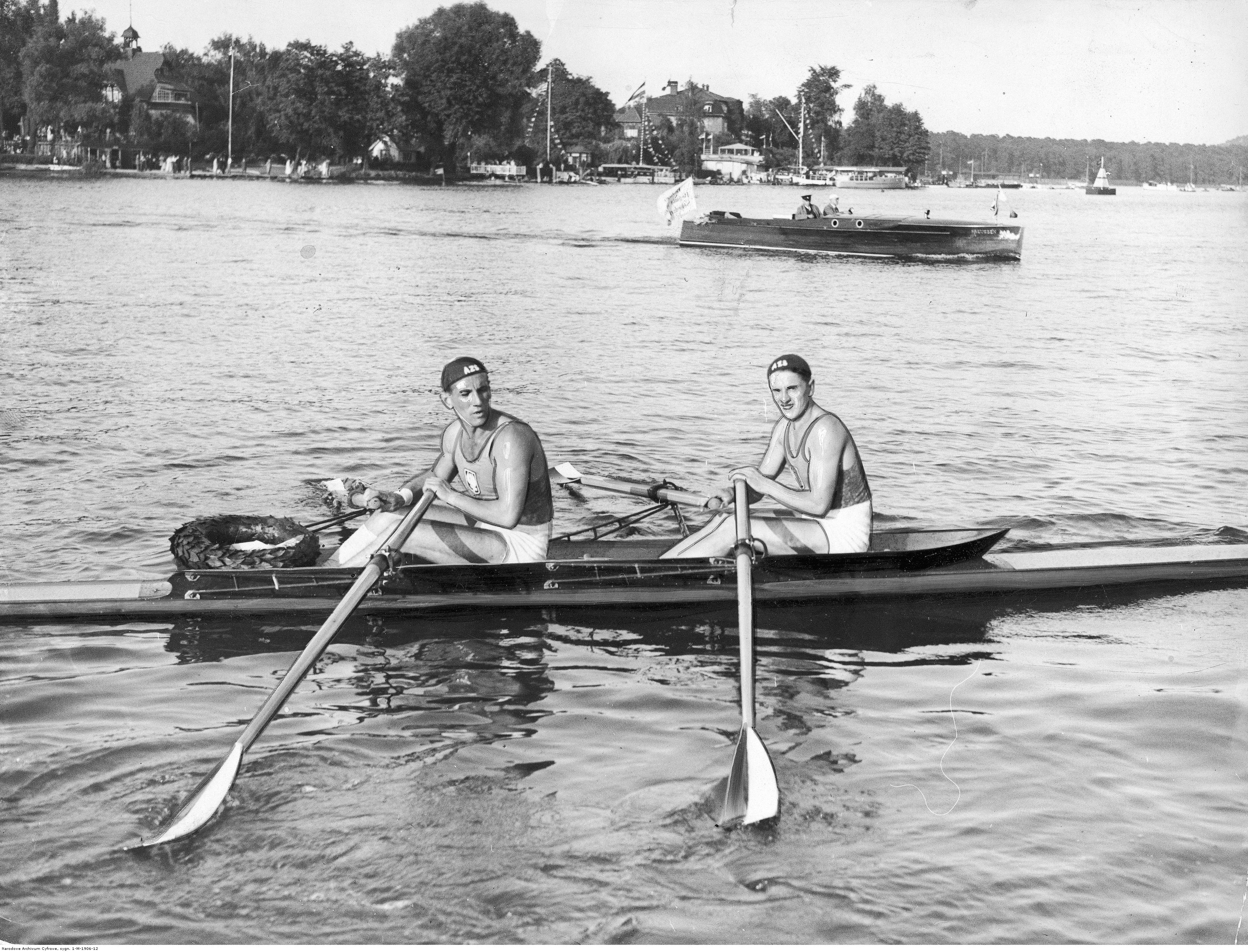 1935 European Rowing Championships in Berlin: Winners at Langer See (Lake Długie) in Grunau. From left: Roger Verey and Jerzy Ustupski.